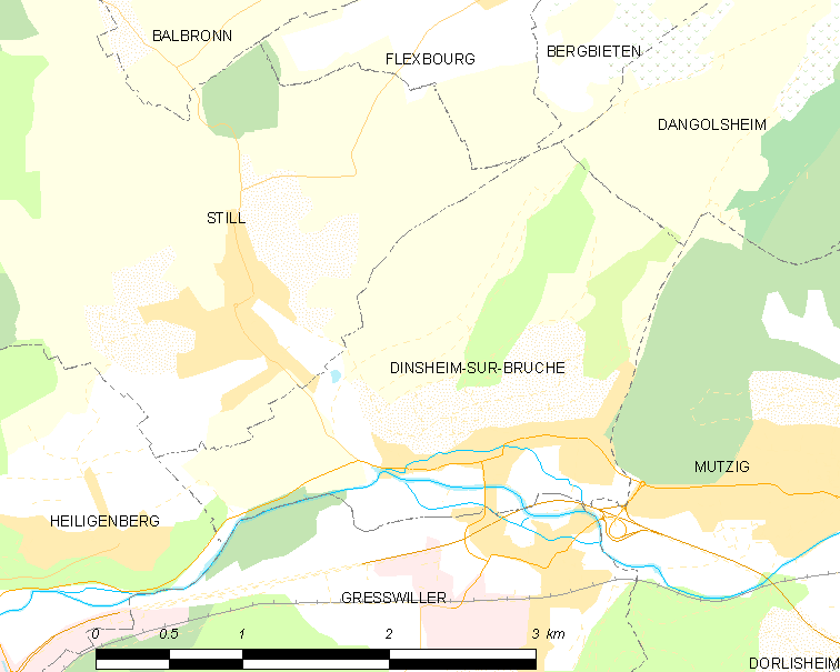 Map of French municipality